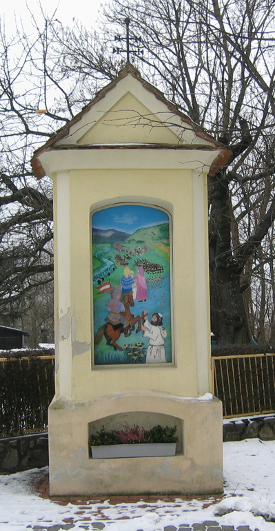 "Türkenkapelle" in Pinkafeld, Burgenland, Austria